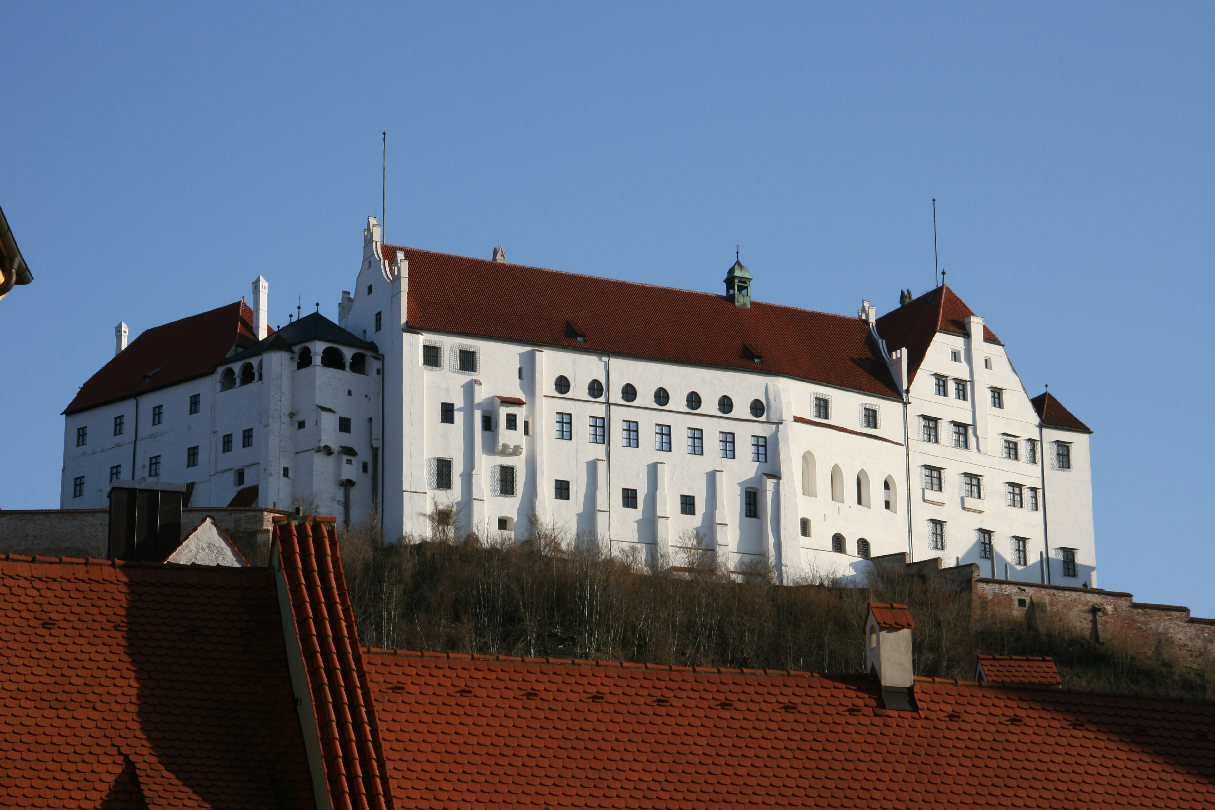 Burg Trausnitz in Landshut, north side (view from Martinsfriedhof) Burg Trausnitz in Landshut, Nordseite (aufgenommen vom Martinsfriedhof)